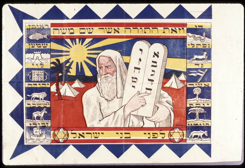 Description: Flag Object Origin: France Medium: printed, color Date: ca. 1930(?) Persistent URL: Repository: Yeshiva University Museum, 15 West 16th Street, New York, NY 10011 Accession number: 1997.208 Rights Information: No known copyright restrictions; may be subject to third party rights. For more copyright information, click here. See more information about this image and others at CJH Museum Collections.